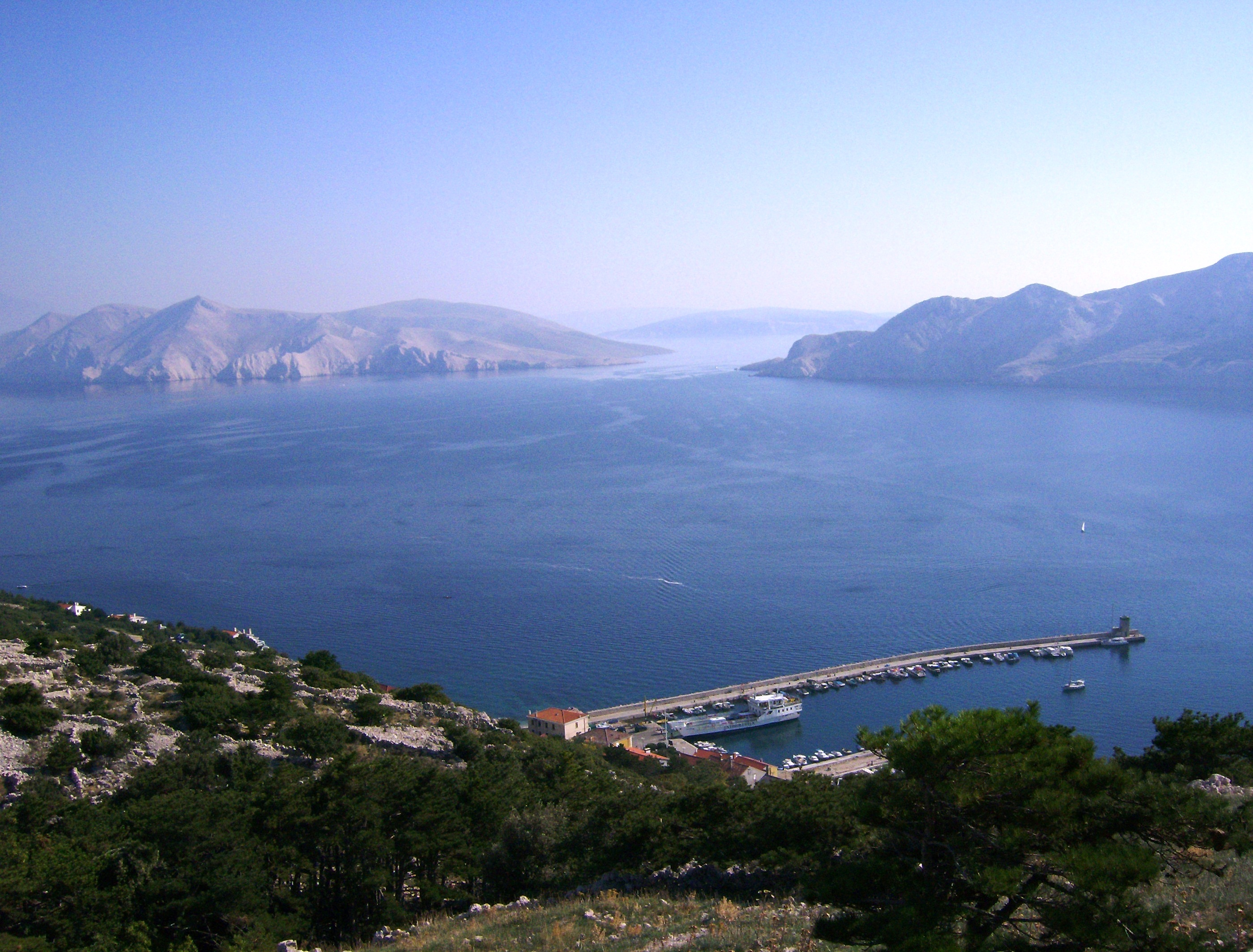 A view from a hill down over Baska on the island of Krk.